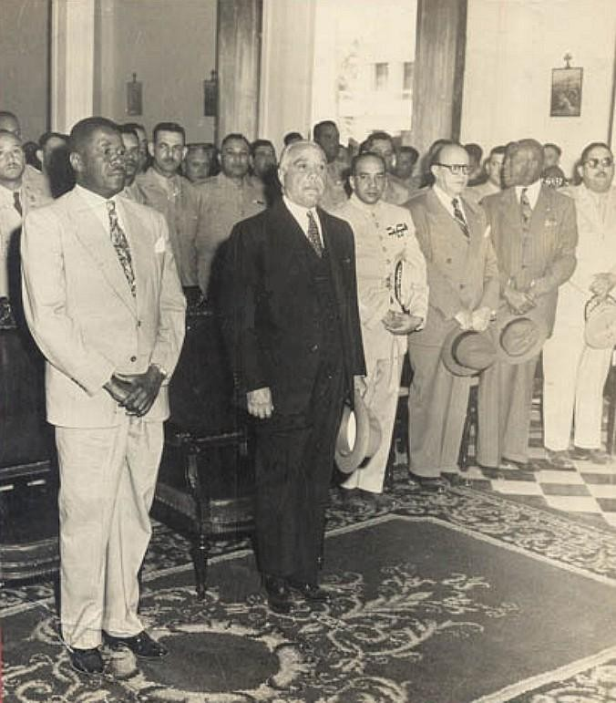 Rafael L. Trujillo (dark suit) welcoming newly-elected Haitian President Paul Magloire (left) in Ciudad Trujillo (Santo Domingo) in February 1951. The army officer in white uniform behind Trujillo is his brother Hector, who will be figurehead president from 1952 to 1960. On the far left (partly hidden) is Trujillo's son Ramfis. On the far right (wearing dark glasses because of a glass eye) is Anselmo Paulino, who was often enthrusted by Trujillo with Haiti-related tasks. He negotiated the financial settlement with Haitian politicians in the aftermath of the 1937 massacre and later worked hard to have Elie Lescot chosen as president of Haiti.